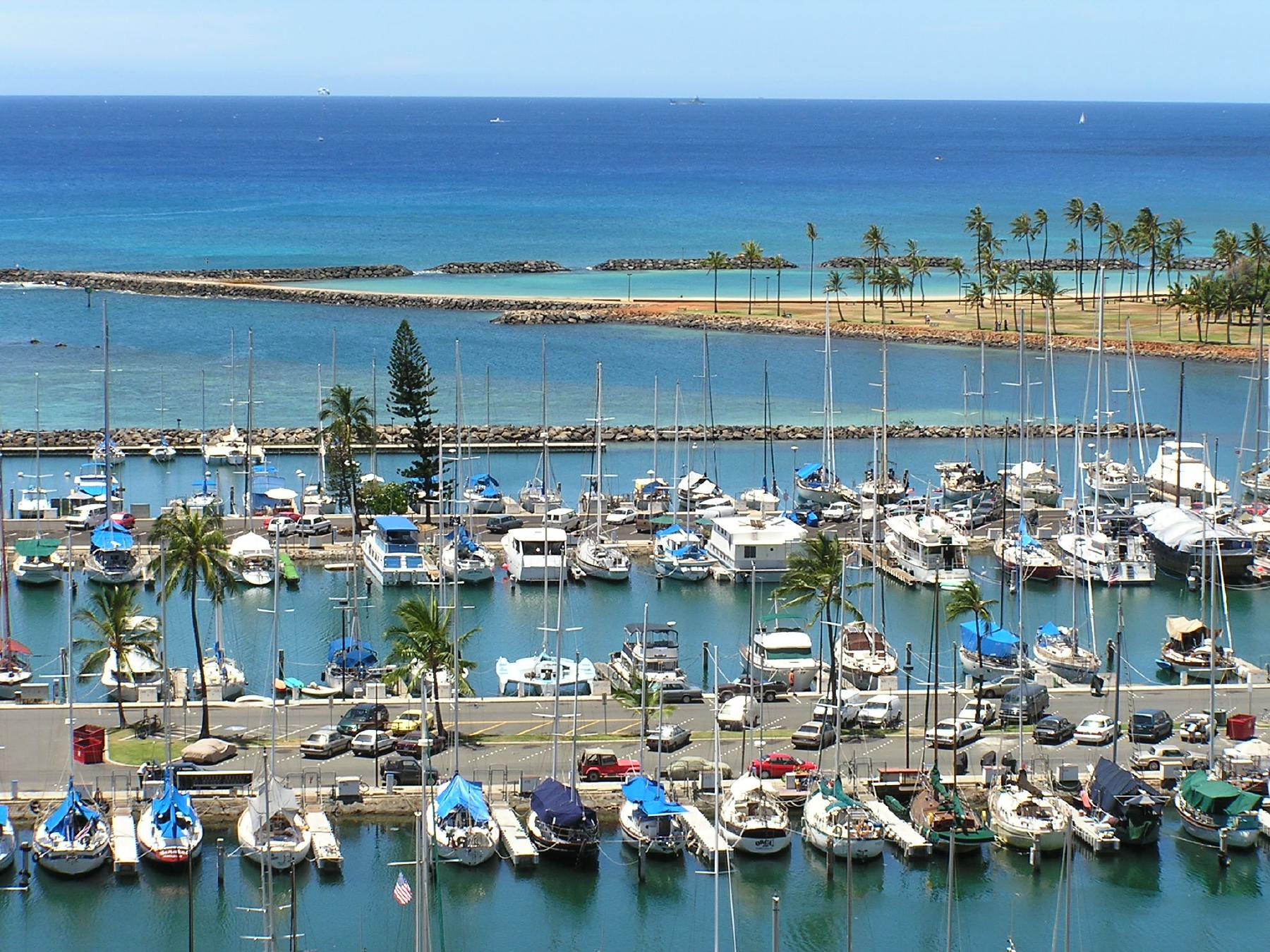 The harbor outside the Hawaii Prince Hotel in Honolulu09152003 020